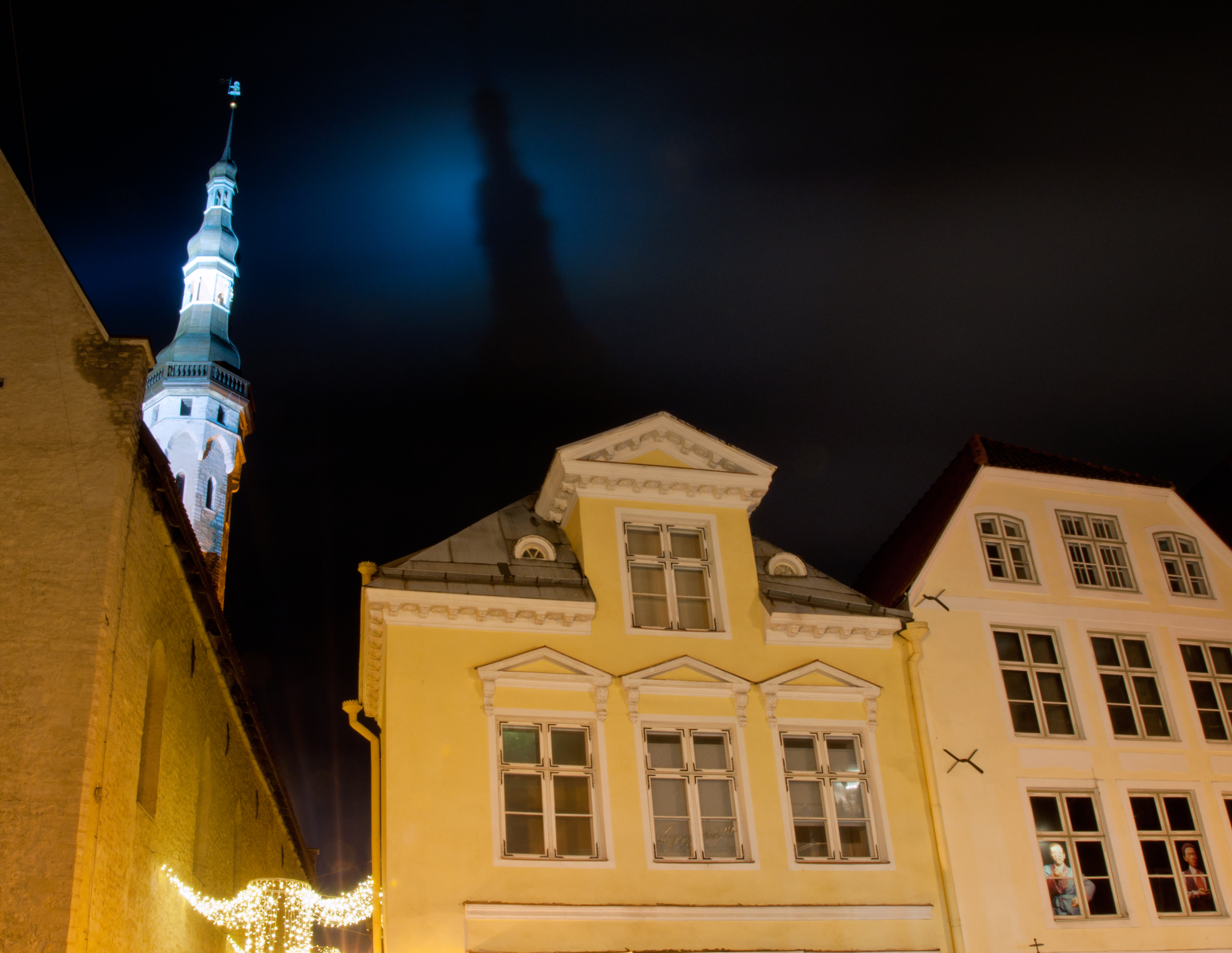 Brocken spectre